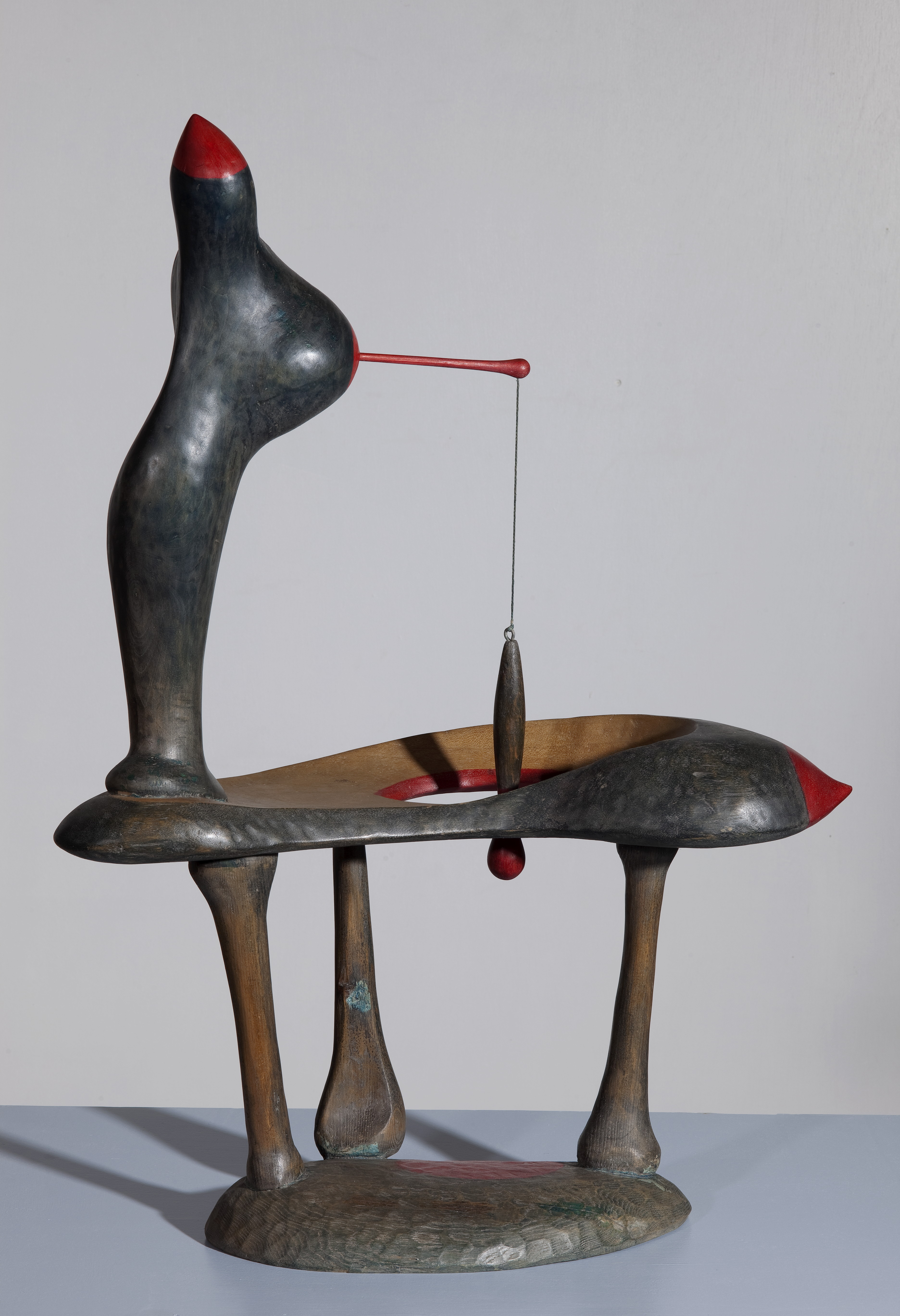 Wu Shaoxiang, Shoe 1986, wood, bamboo and rope, height 92 cm